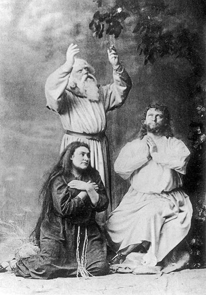 Amalie Materna, Emil Scaria and Hermann Winkelmann (right)in the 1882 premiere production of Parsifal in Bayreuth